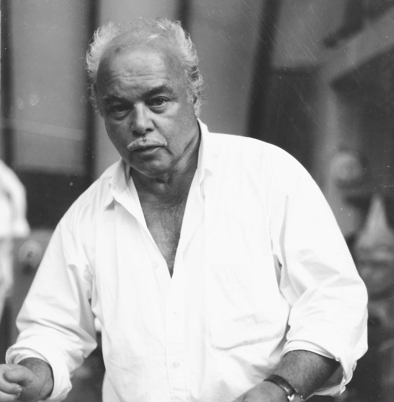 Portrait Gudmar Olovson